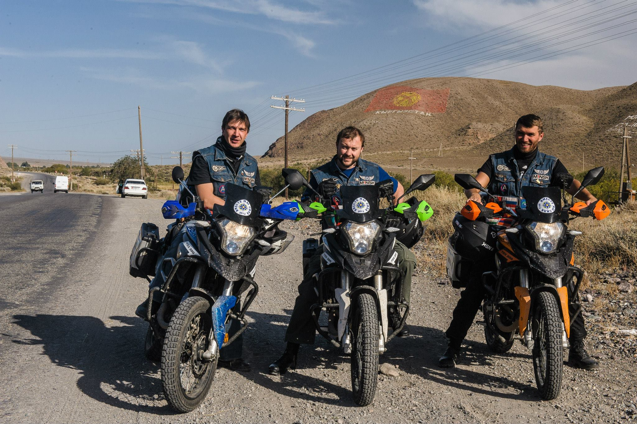 Alexander Kosarev, Alexander Bordyuzha and Alexei Nazdratenko with three Minsk TRX 300 motorcycles going from Brest to Dushanbe.